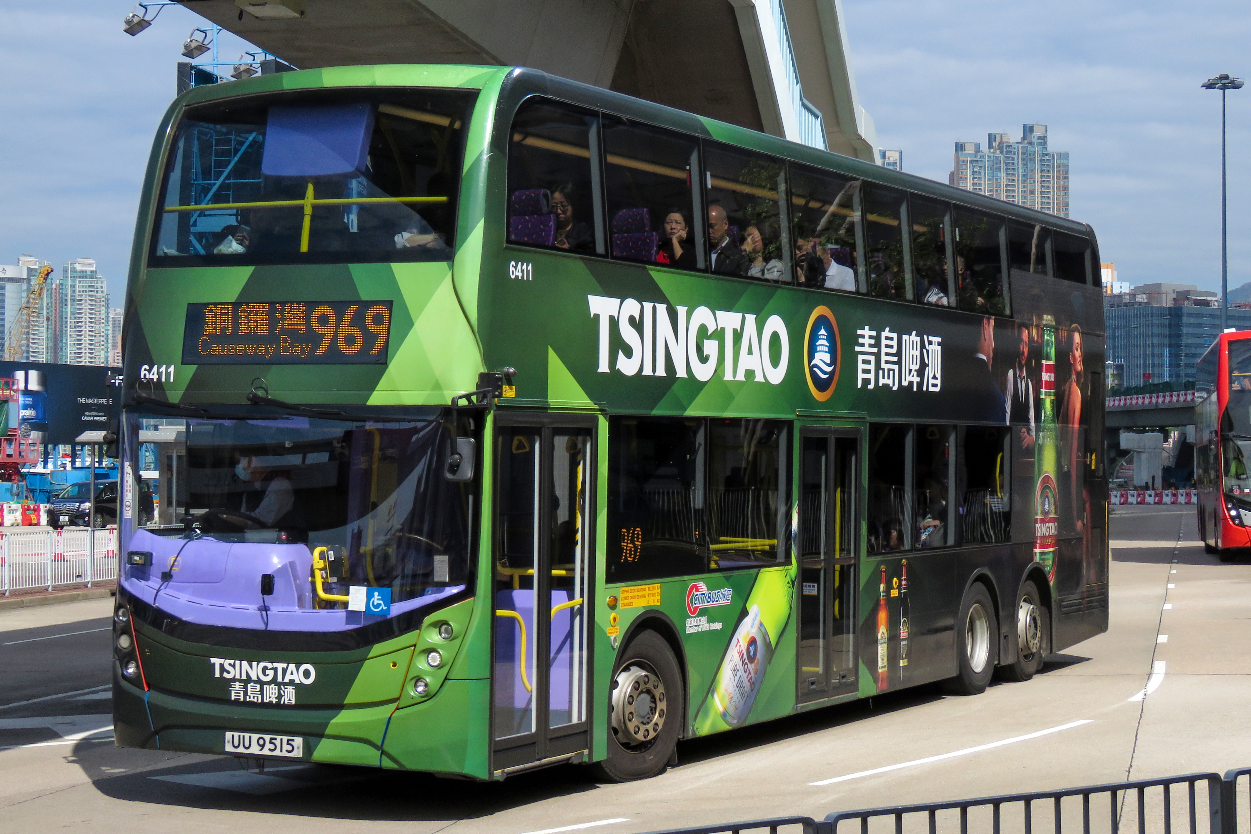 Entering the tunnel in Tsingtao Beer advertisements.